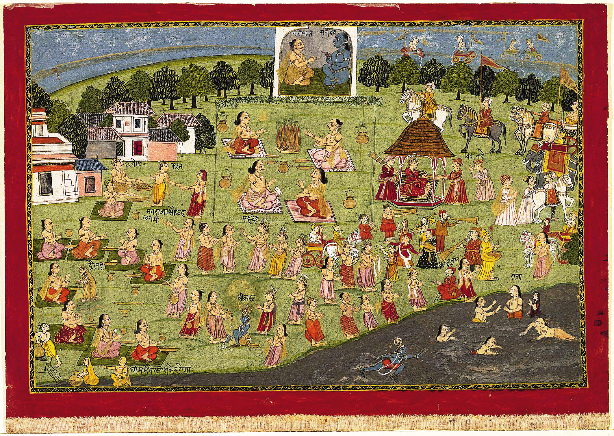 Folio from a Bhagavatapurana Series: King Yudhisthira Performs the Rajasuya Sacrifice, 1825-50 India: Himachal Pradesh, Kangra Workshop, 1825-1850 Gift of Ramesh and Urmil Kapoor P.2003.02.02